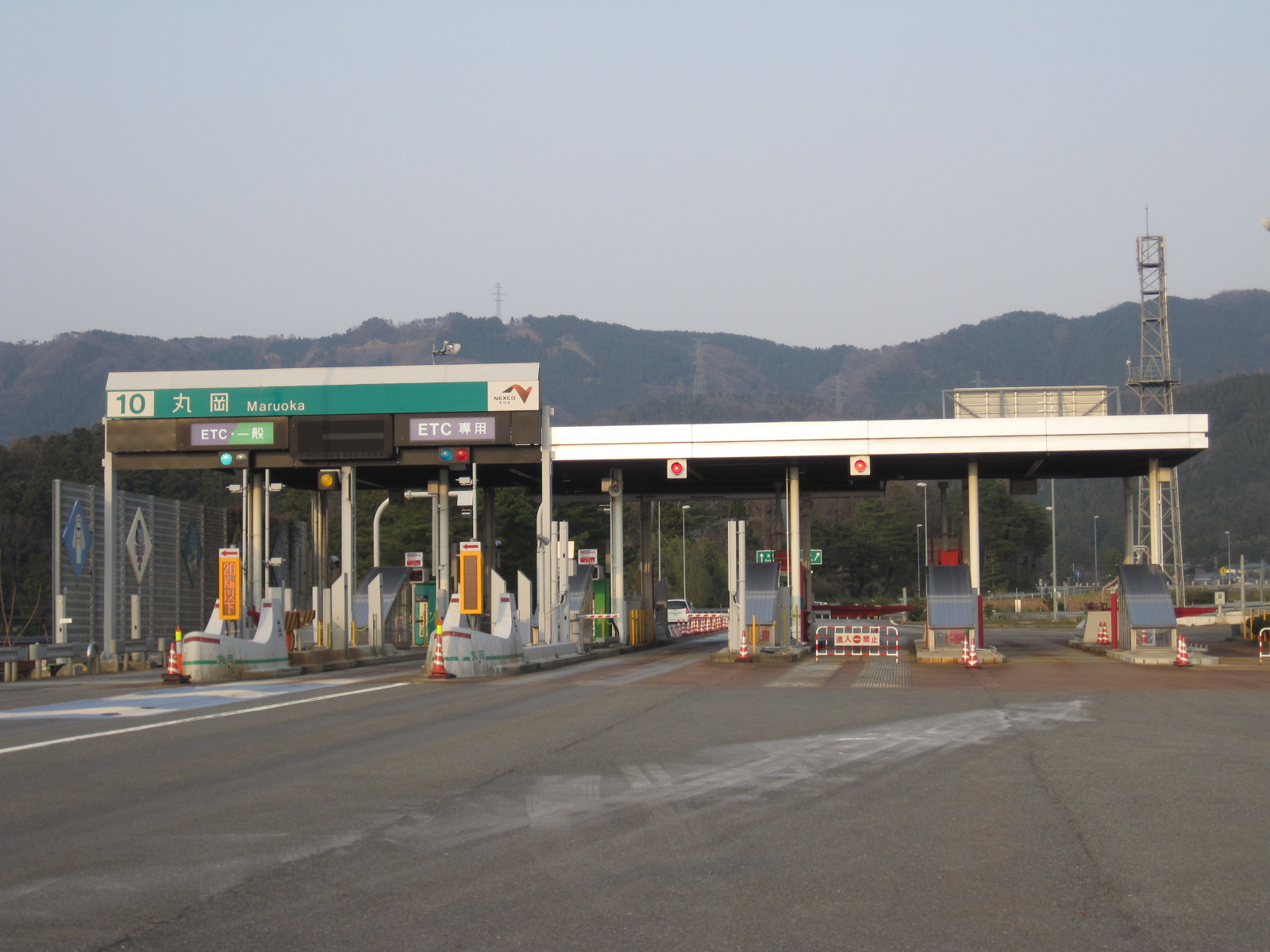 Maruoka Inter Change (Hokuriku Expressway, Fukui prefecture, Japan)